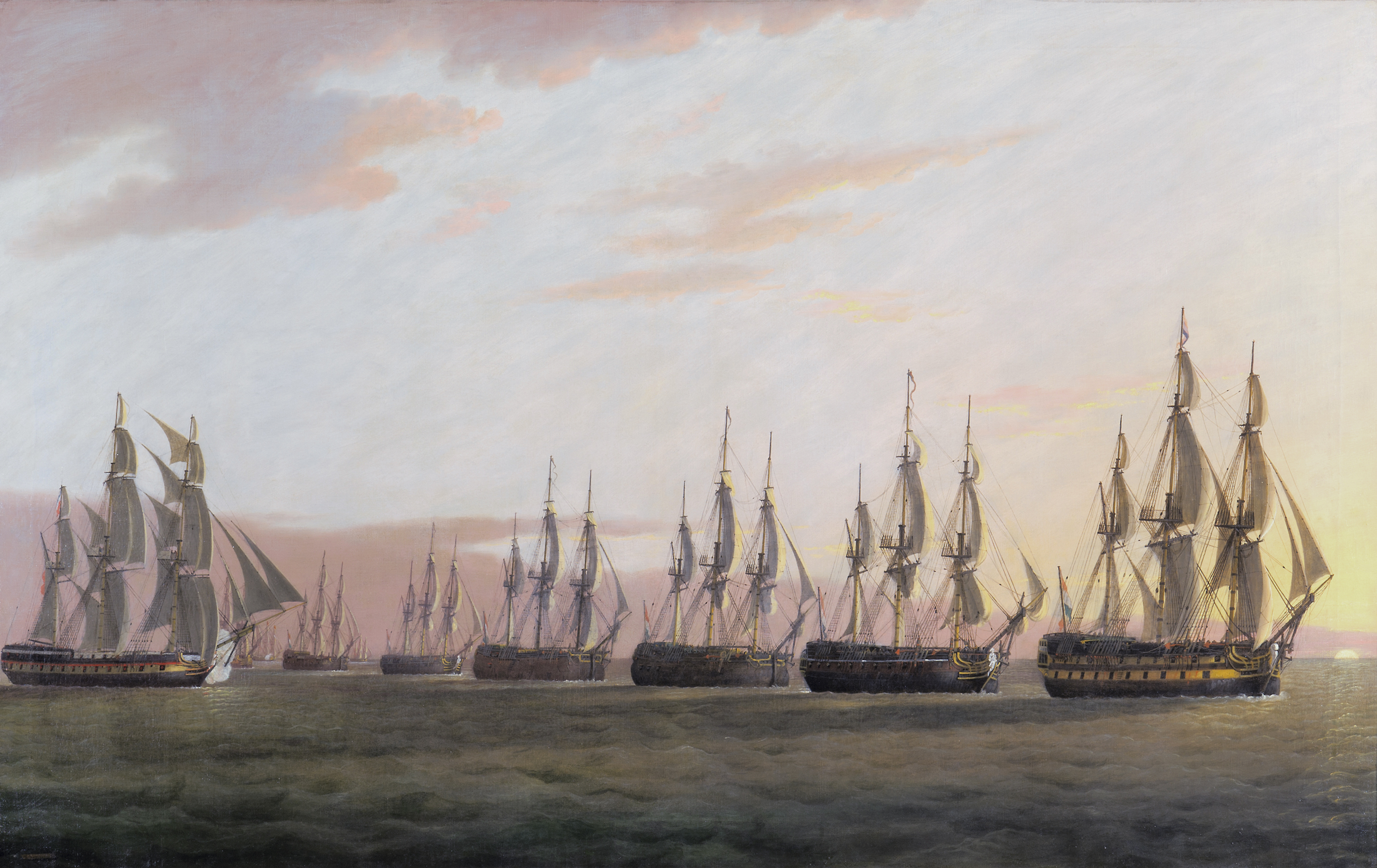 A view of the H.C. Ship General Goddard, Captn. W.T. Money, passing along the enemy's line to bring the Dutch Commodore to, at sunrise, in the morning of the 14th. of June 1795 oil 114.9 x 183.5 cm 1797 Het nemen van de VOC-vloot door schepen van de Engelse East-India Company. De zeven VOC-schepen die door de Engelsen werden genomen waren de ‘Vrouwe Agatha’, ‘Dordwijk’, Meermin’, ‘Mentor’, ‘Sucheance’, ‘Zeelelie’ en de ‘Alblasserdam’. De schepen werden prijs gemaakt (gekaapt) en opgebracht naar Shannon, Ierland. Enkele schepen zijn onderweg vergaan, te weten de ‘Dordwijk’, ‘Surcheance’ en de ‘Zeelelie’. 1795 Was het laatste jaar waarin er VOC-schepen vanuit de Oost naar Patria kwamen. Het schilderij markeert daarmee het einde van de roemrijke Compagnie.